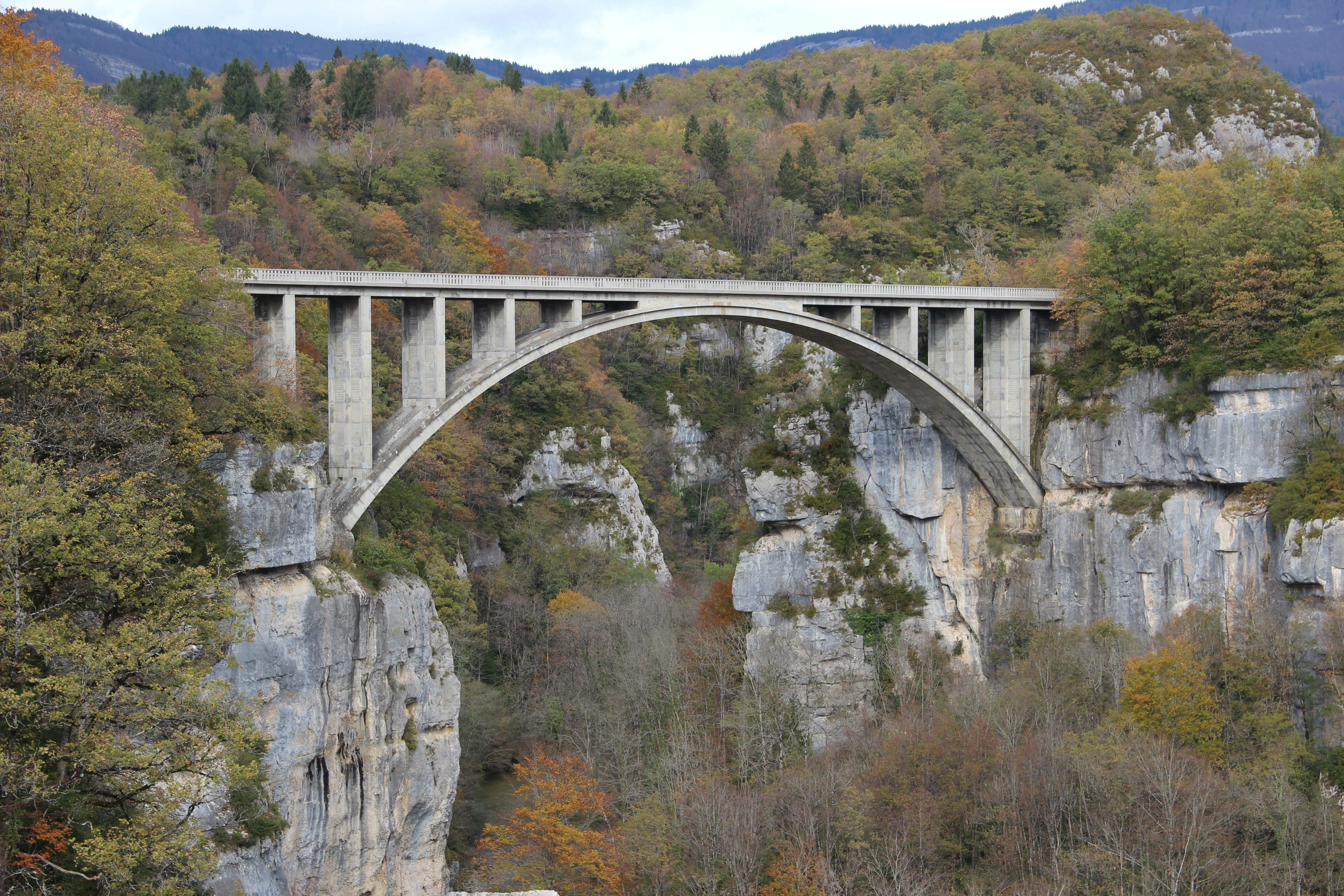 Pont des Pierres over the Valserine.